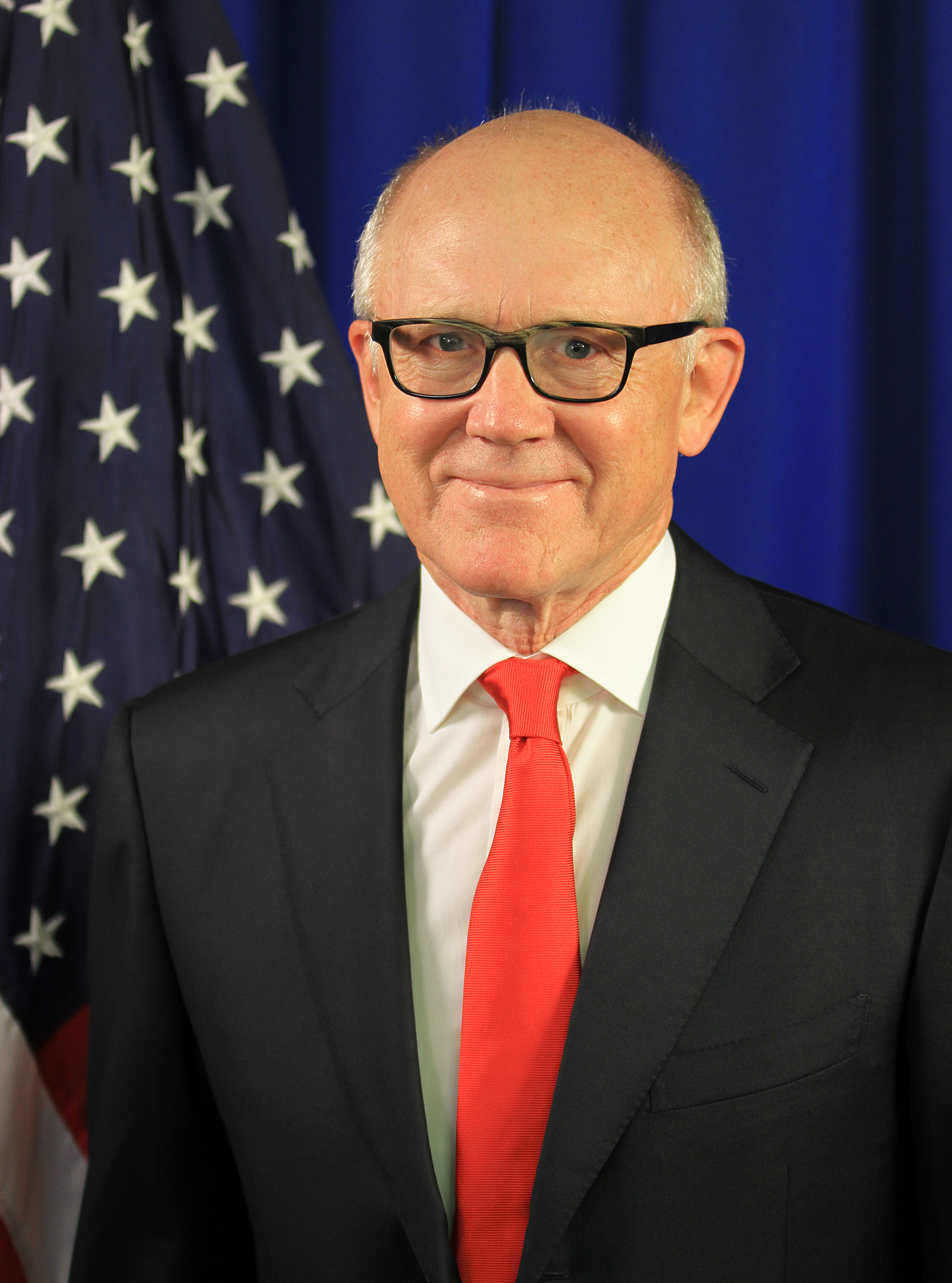 Woody Johnson official portrait